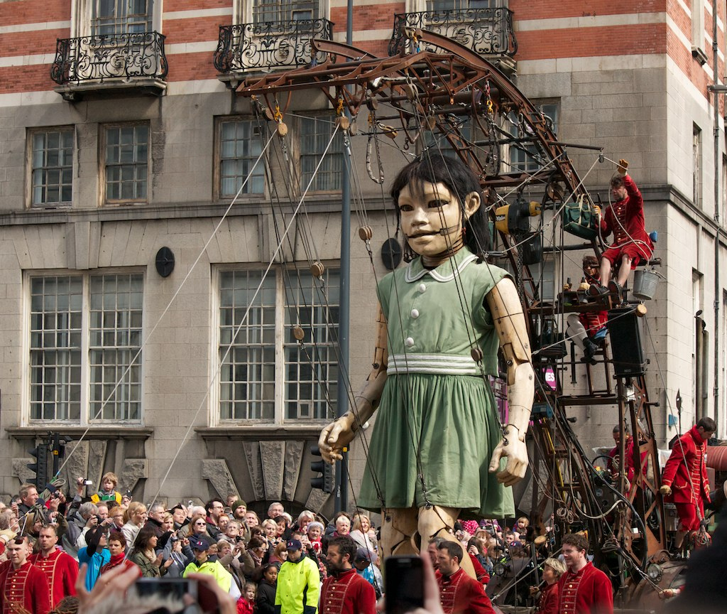 'Little Giant Girl', a 15-meter tall marionette used as part of Sea Odyssey: Giant Spectacular - a three day street theatre event during mid-April 2012 in Liverpool, England. The building in the background is Albion House, the former headquarters of White Star Line.